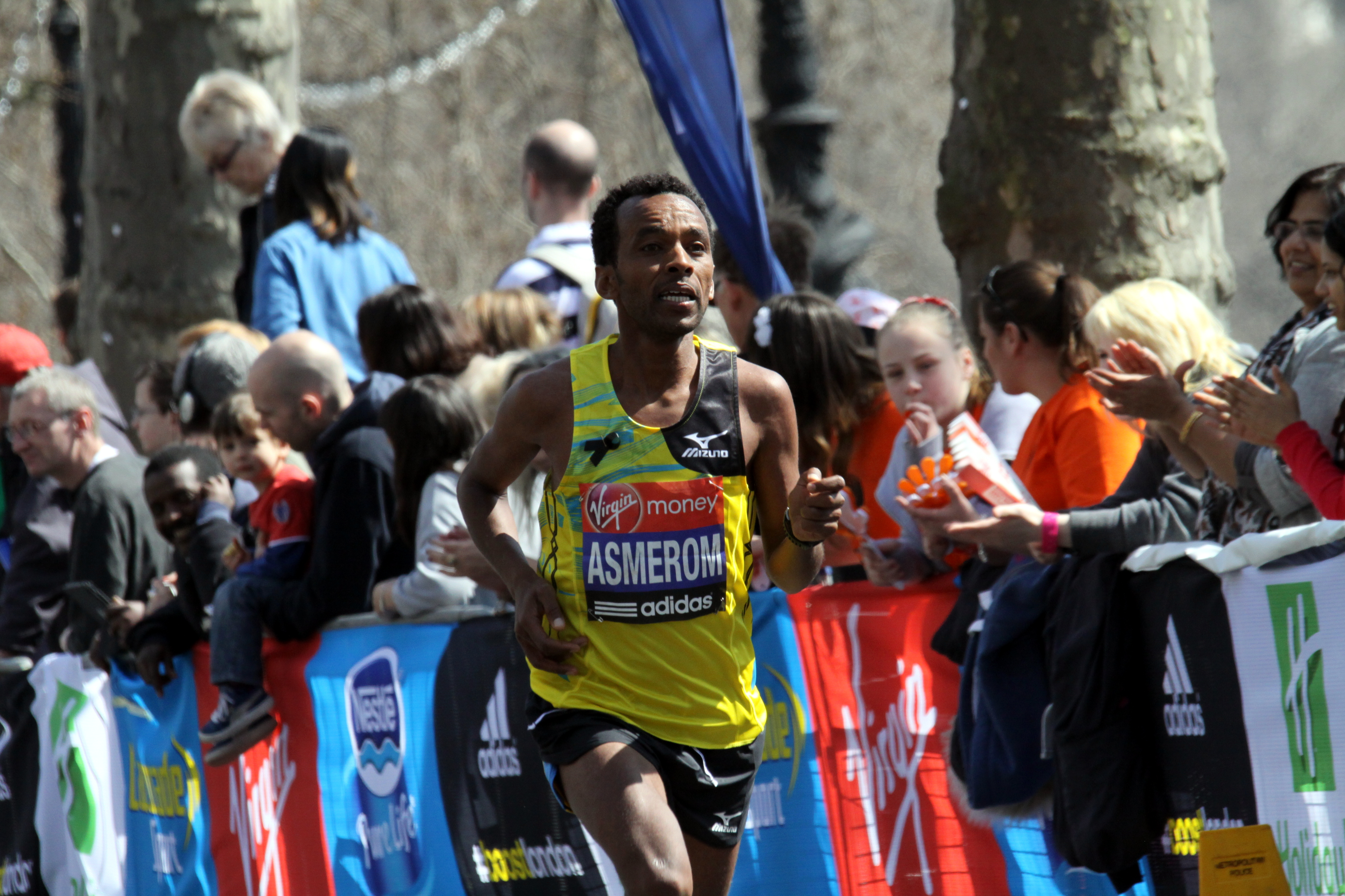 Yared Asmerom during 2013 London Marathon, photographed at Victoria Embankment, London, Great Britain. The making of this file was supported by Wikimedia UK.